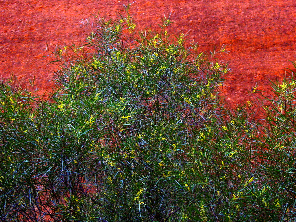 Acacia olgana; Kata Tjuta, North Territory; Australia.